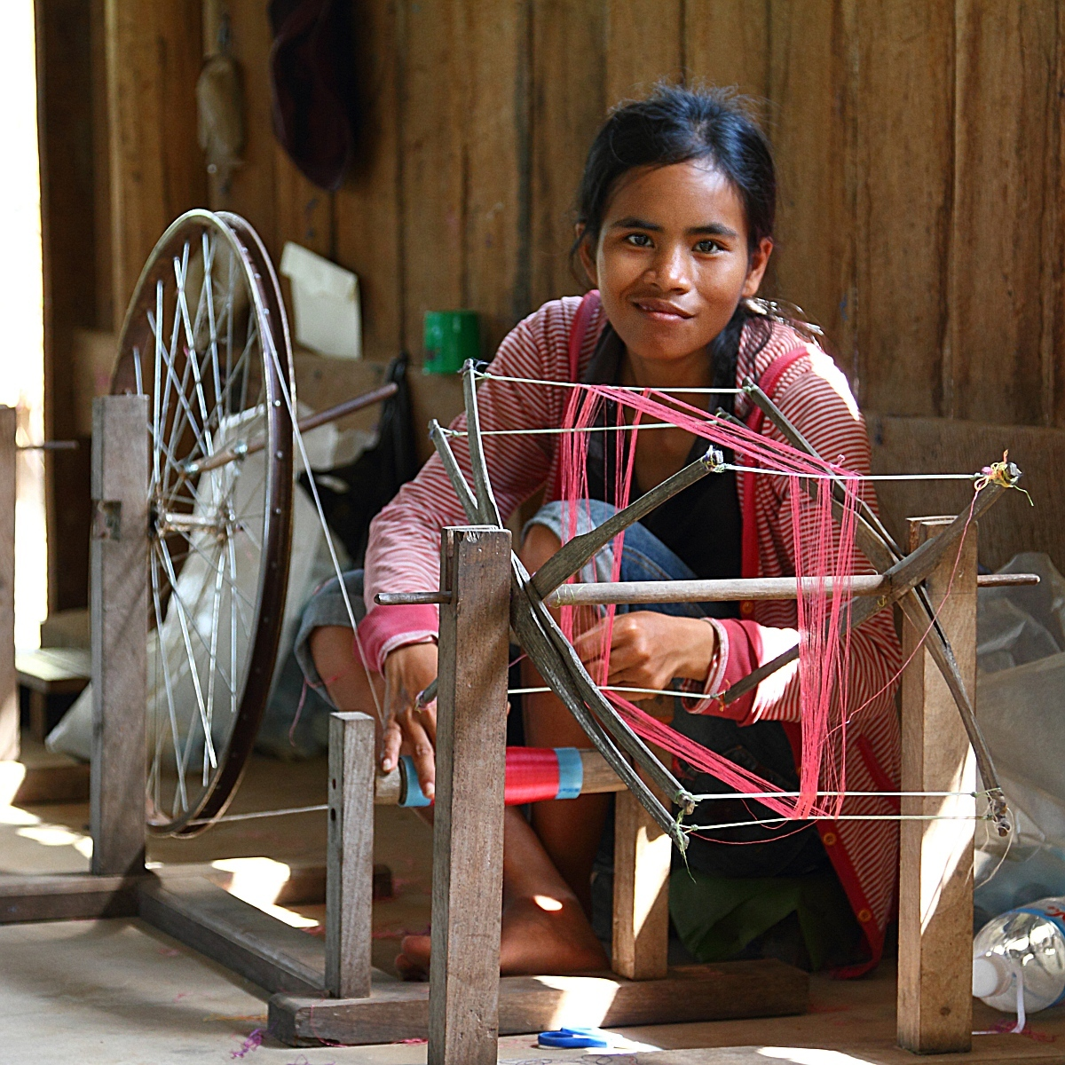 BiReCycle